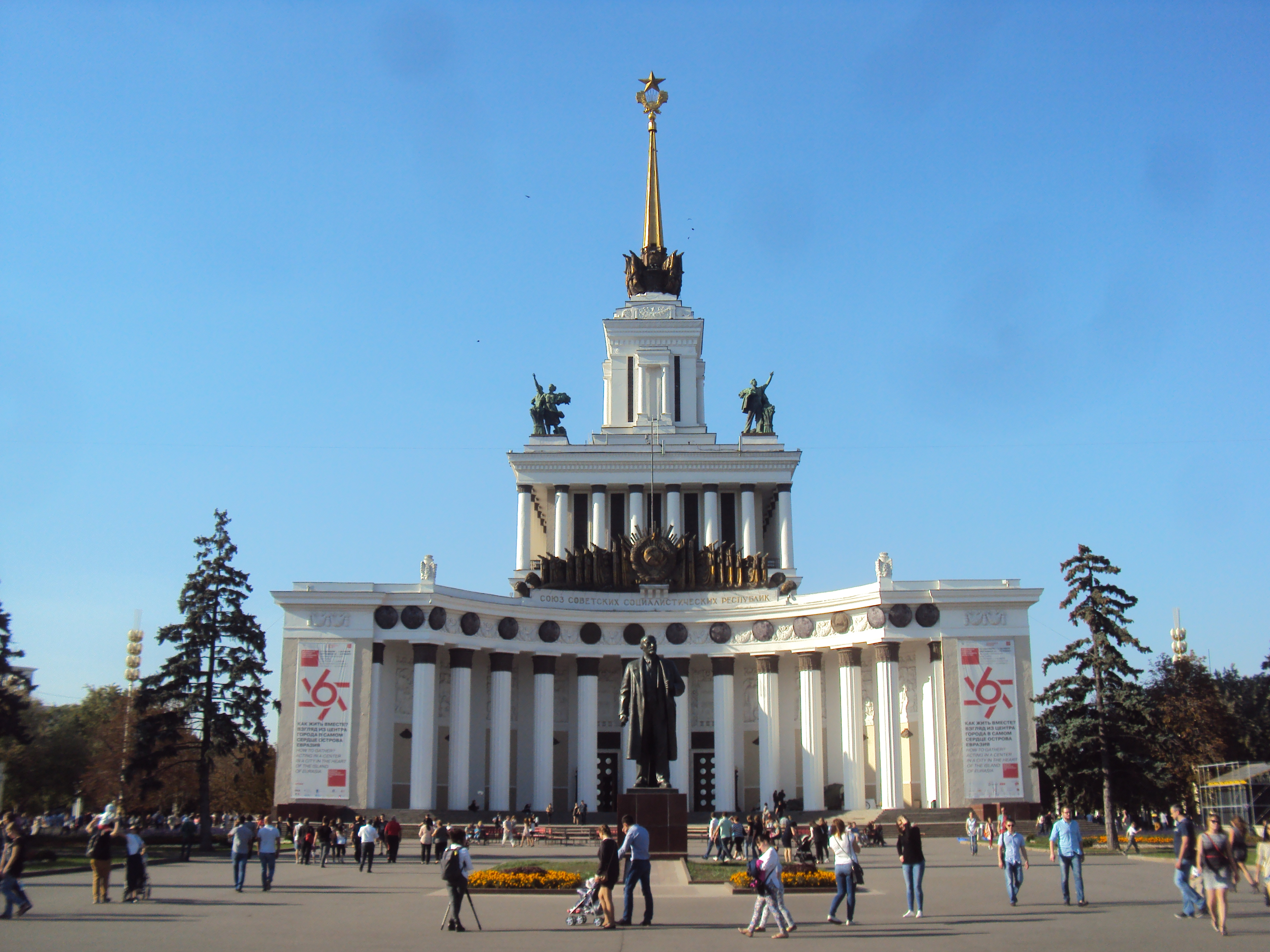 Central pavilion VDNH